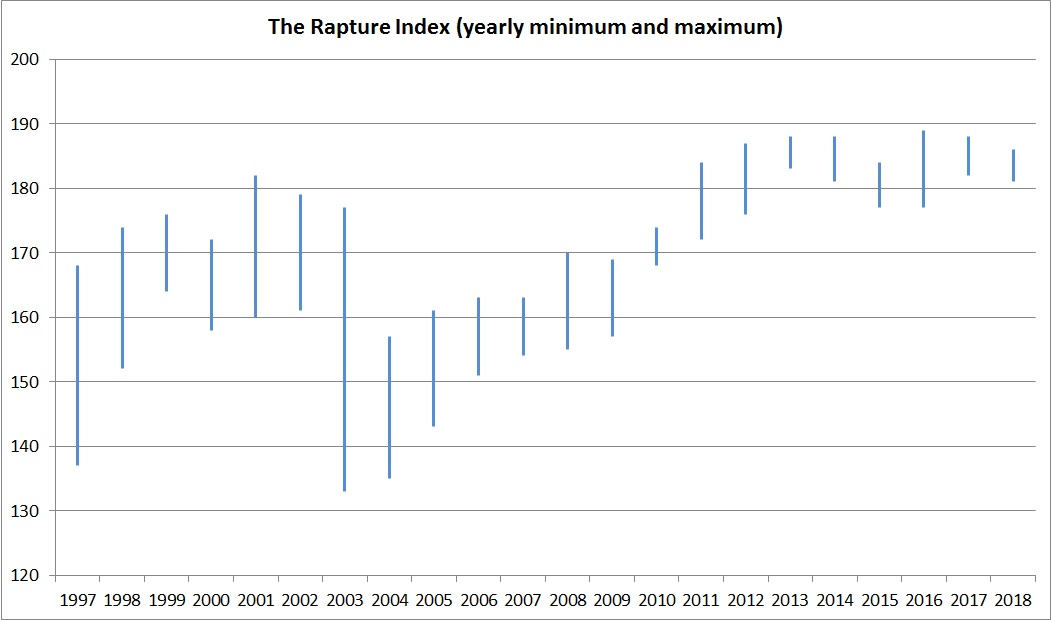 The Rapture Ready Rapture Index 1997-2018